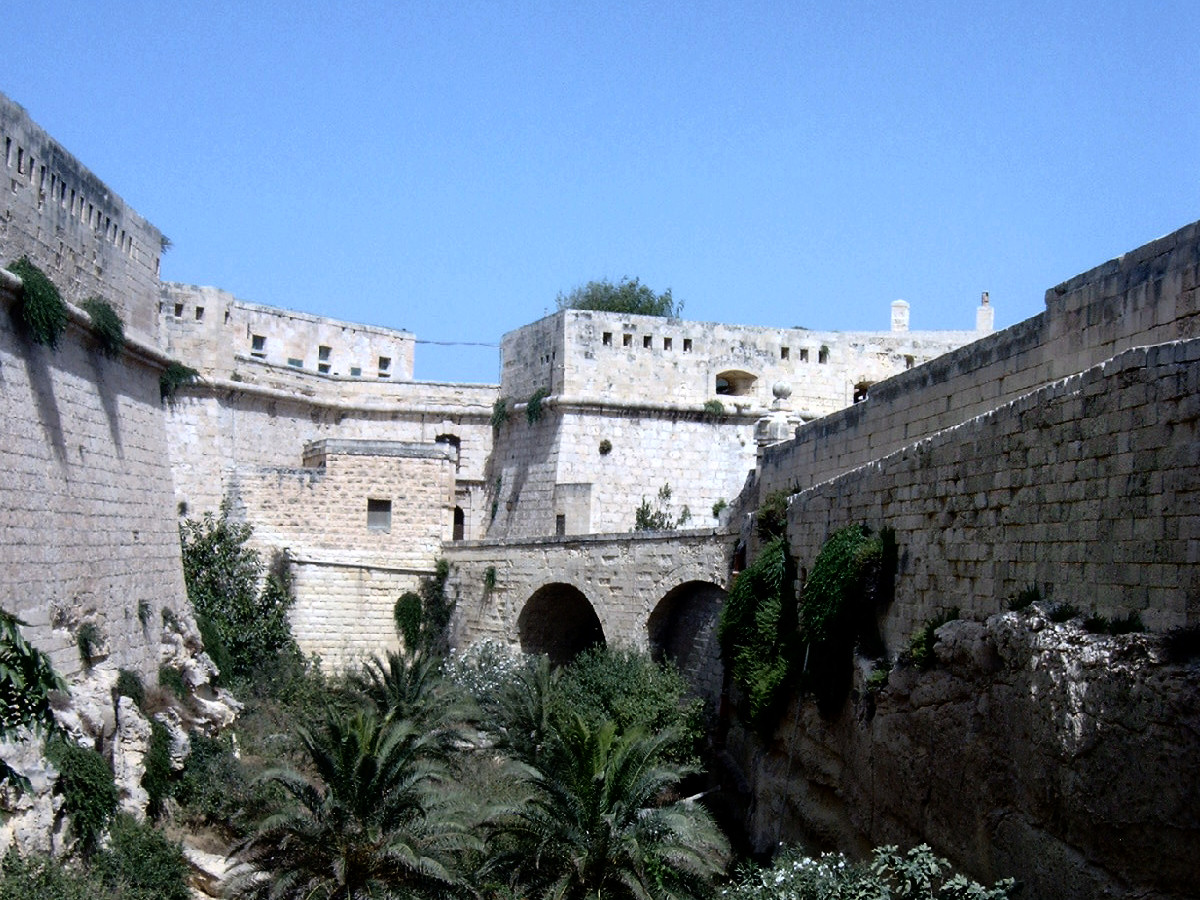 Fort St. Elmo, Valletta, Malta